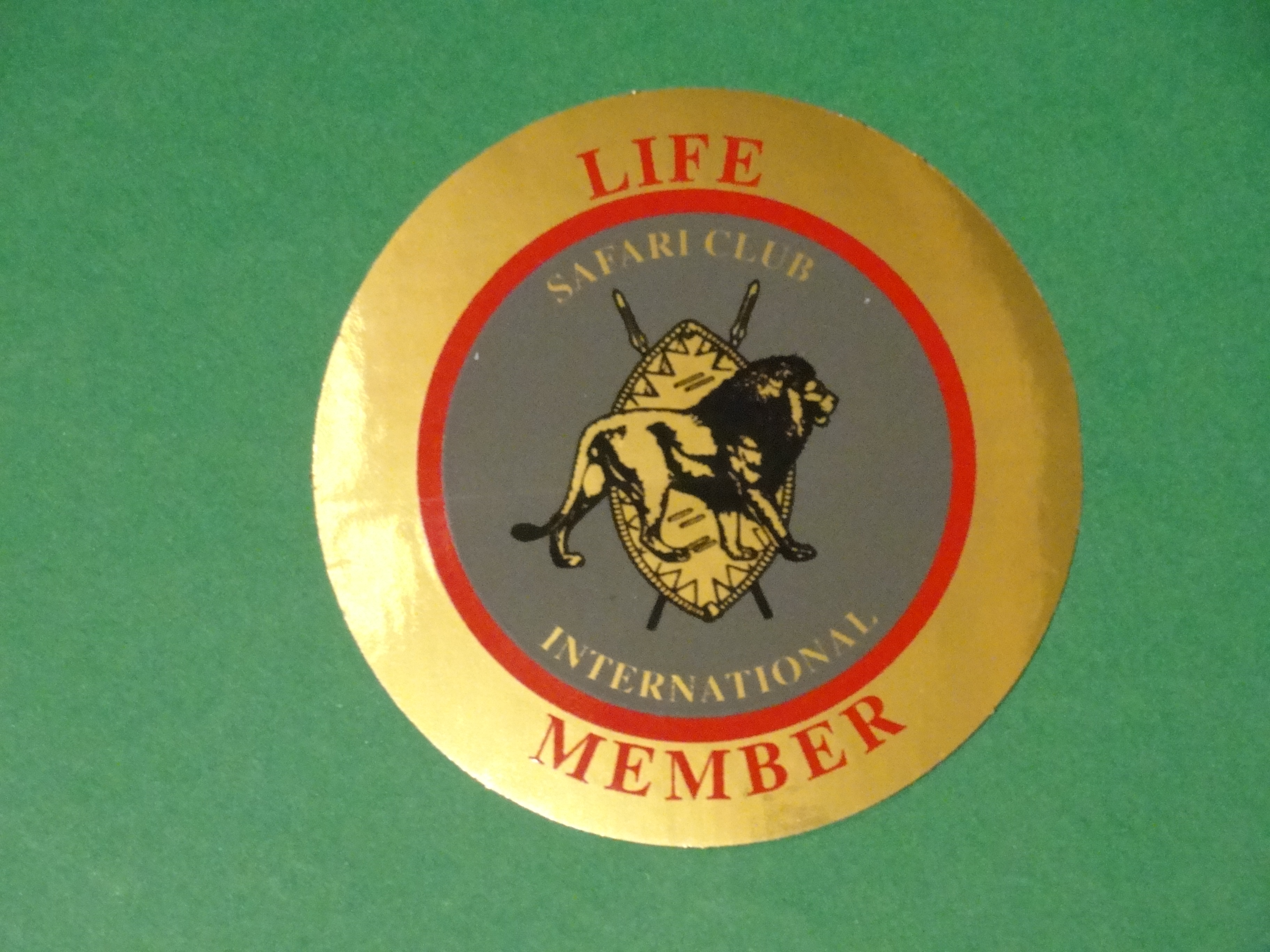 Safari Club International Logo Badge